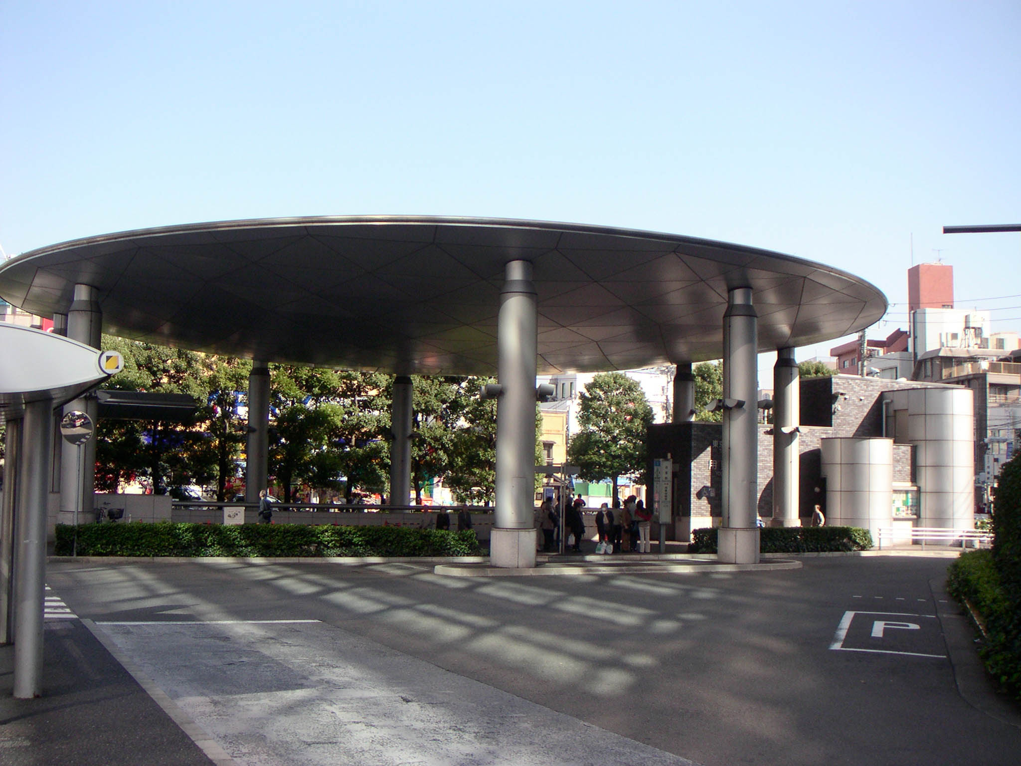 Yoga Station, Denentoshi Line, Tokyo, Japan